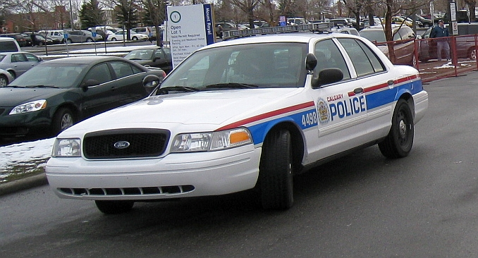 Calgary Police Service vehicle.